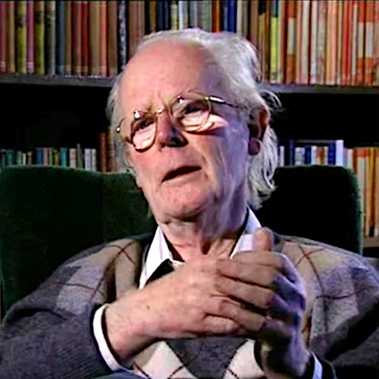 John Maynard Smith - Evolutionary Biologist, creator of Evolutionary Game Theory